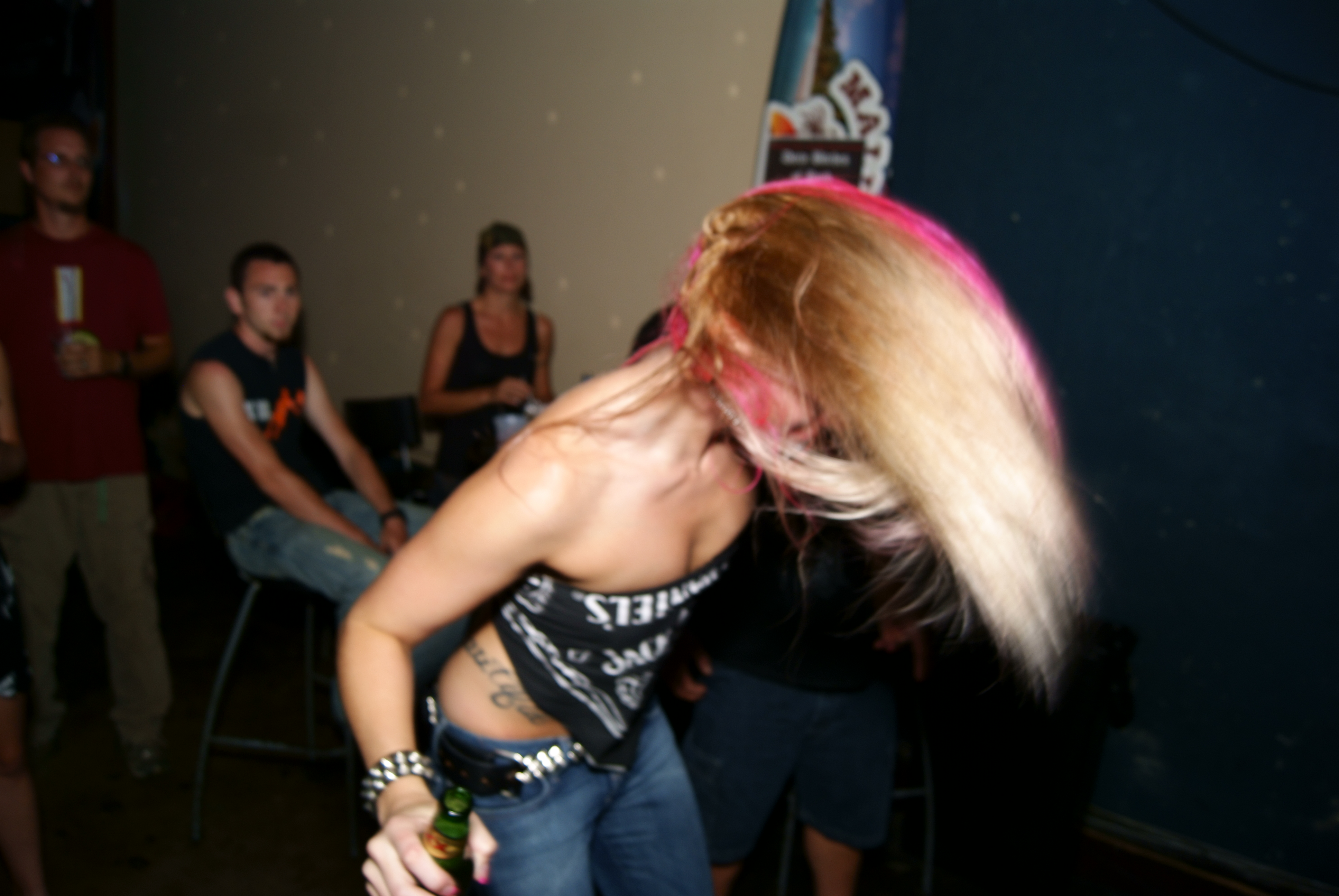 Headbanging woman.